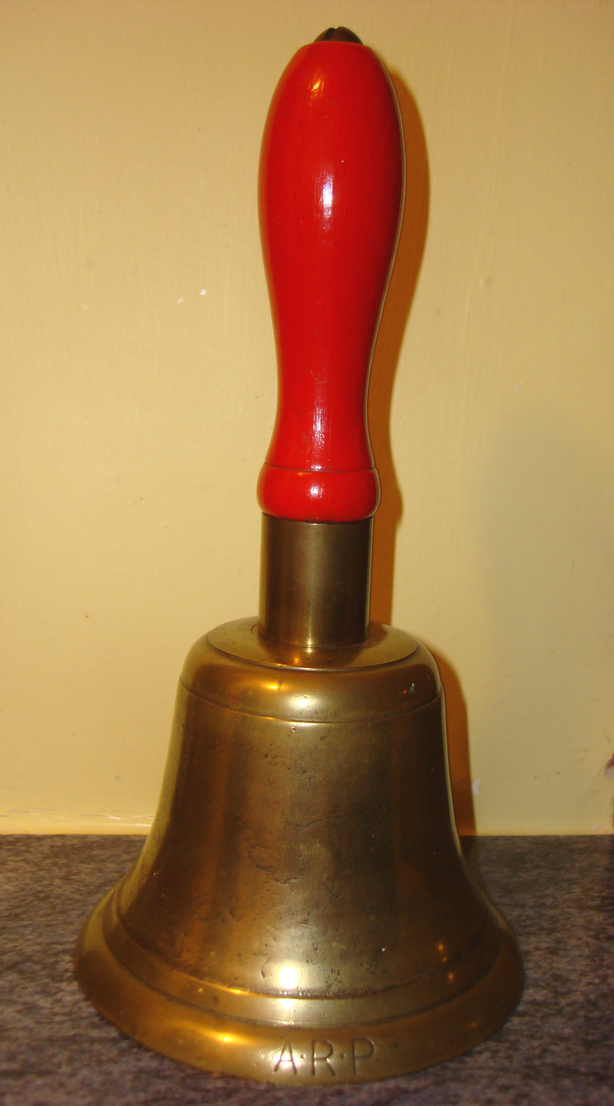 An A.R.P. (Air Raid Precautions) bell